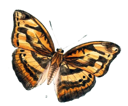 Abrota jumna